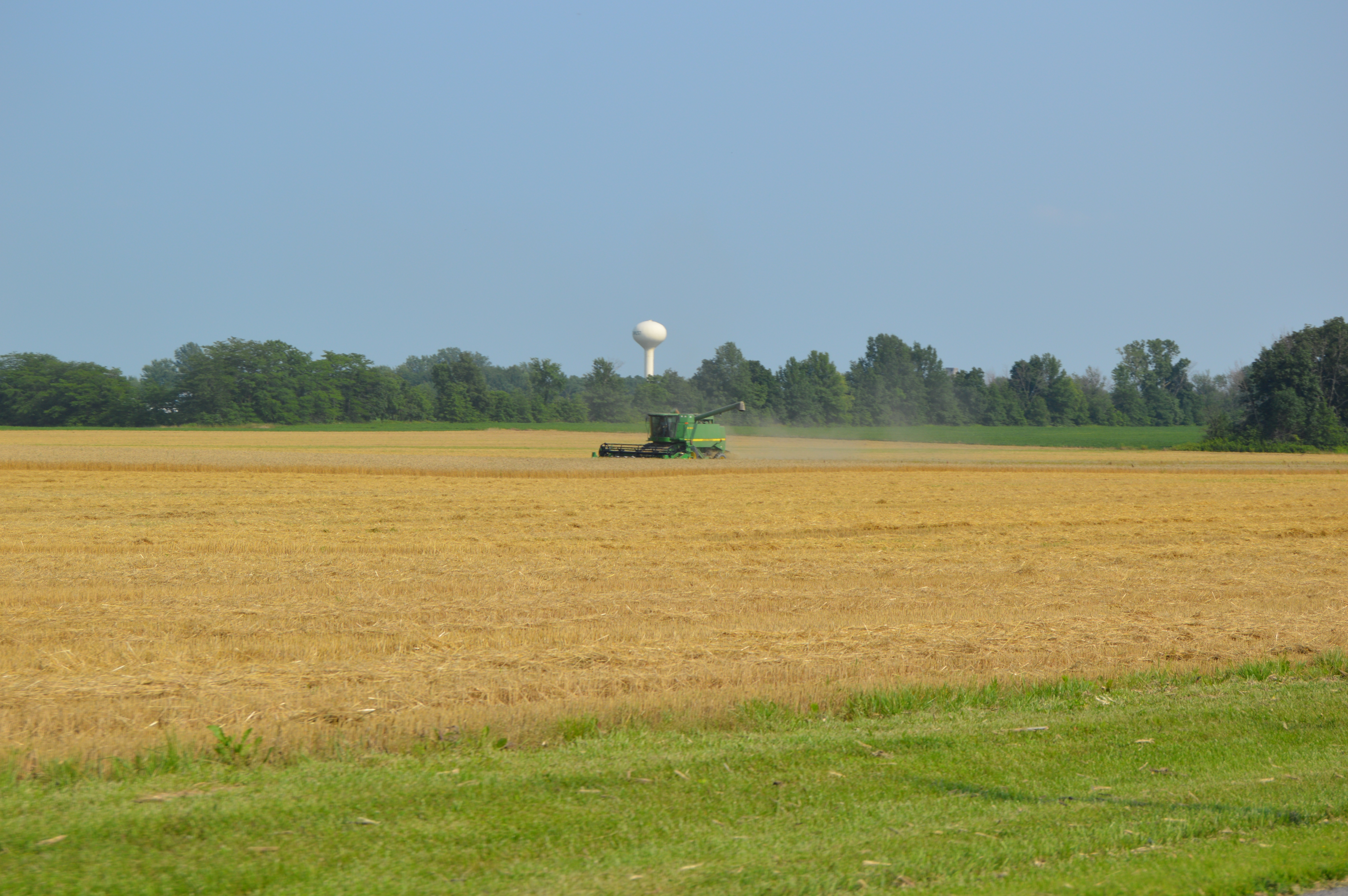 Harvesting wheat in northern Jackson Township, Hardin County, Ohio, United States, seen looking east from State Route 37 north of Forest.